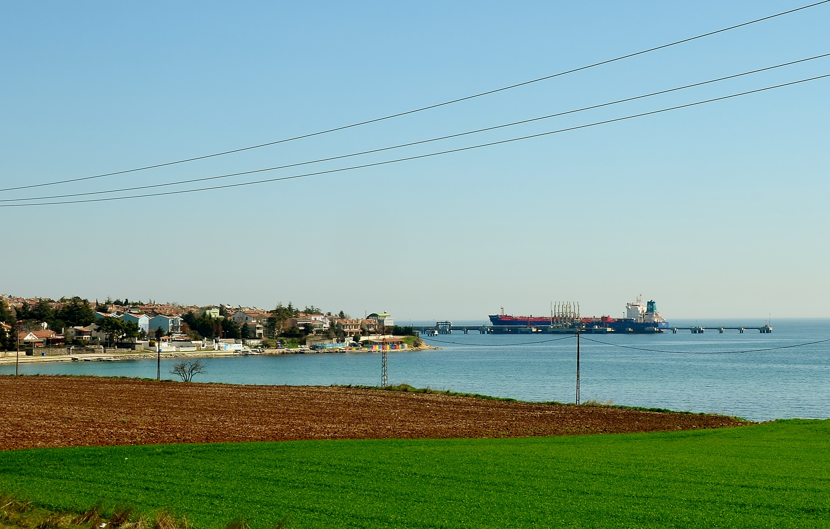 Marmara Ereğlisi LNG Storage Facility's pier with a tanker vessel seen from Marmara Ereğlisi